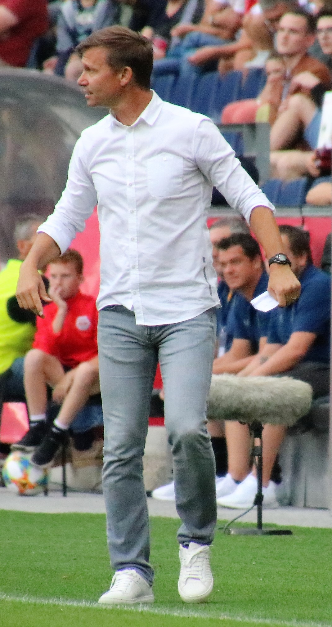 league match Austrian Bundesliga 3rd round